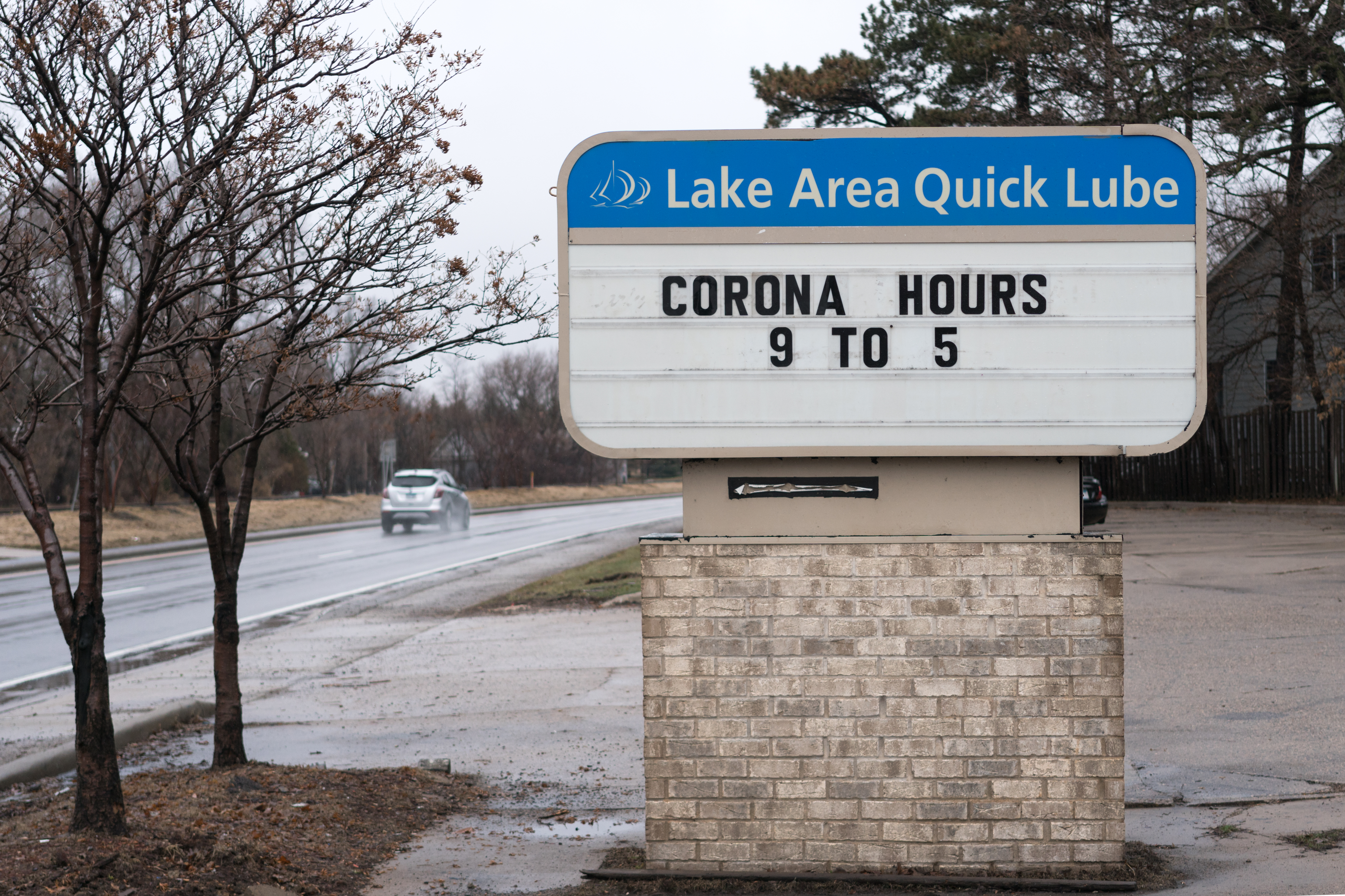 "Corona Hours" sign at the Lake Area Quick Lube sign in White Bear Lake, Minnesota